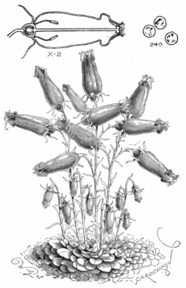 An image of Campanula zoysii, showing a grown plant and cross-section of a flower, and closeup of its seeds.